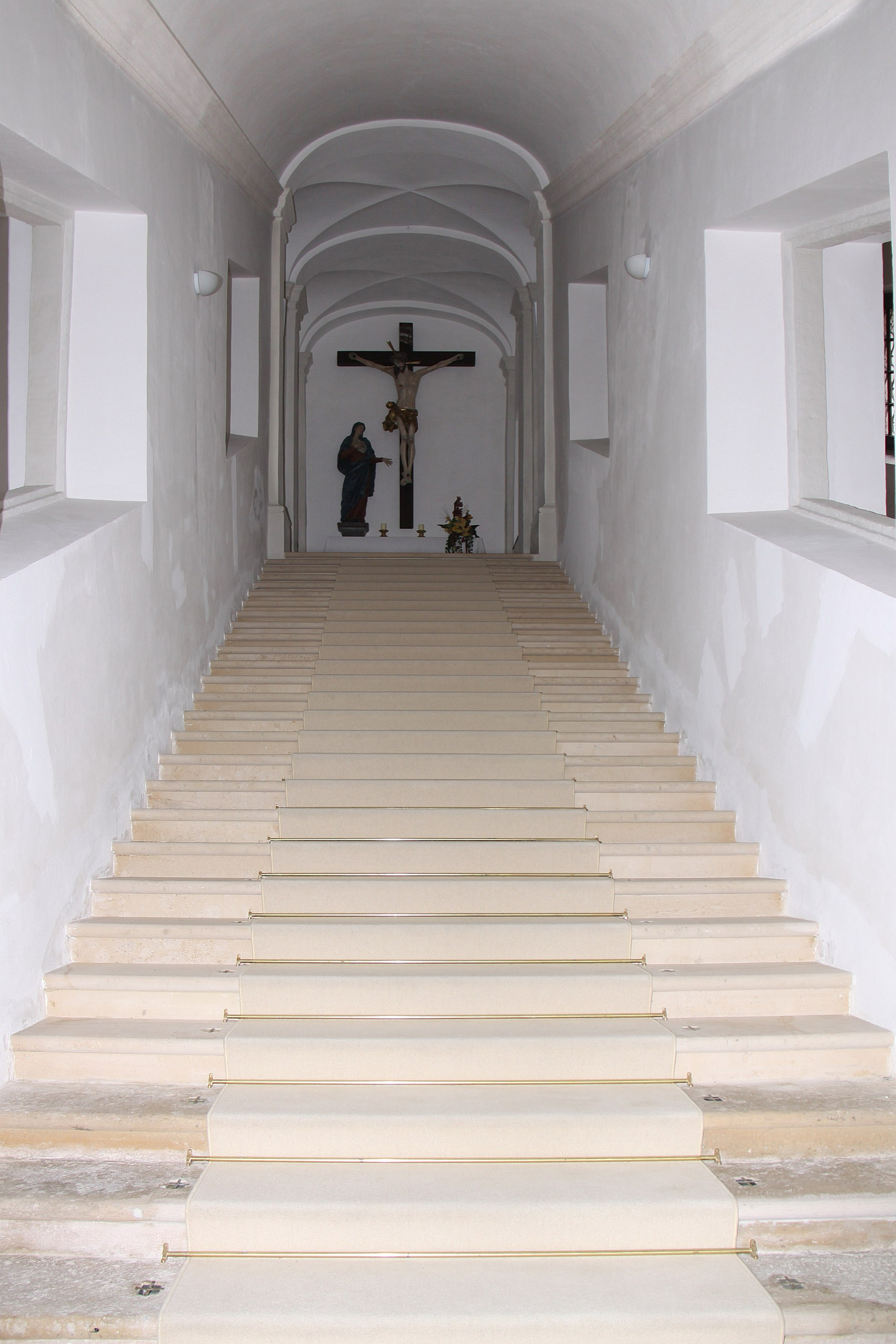 Scala Santa - Forchtenstein Object location47° 42′ 41.68″ N, 16° 20′ 38.58″ E